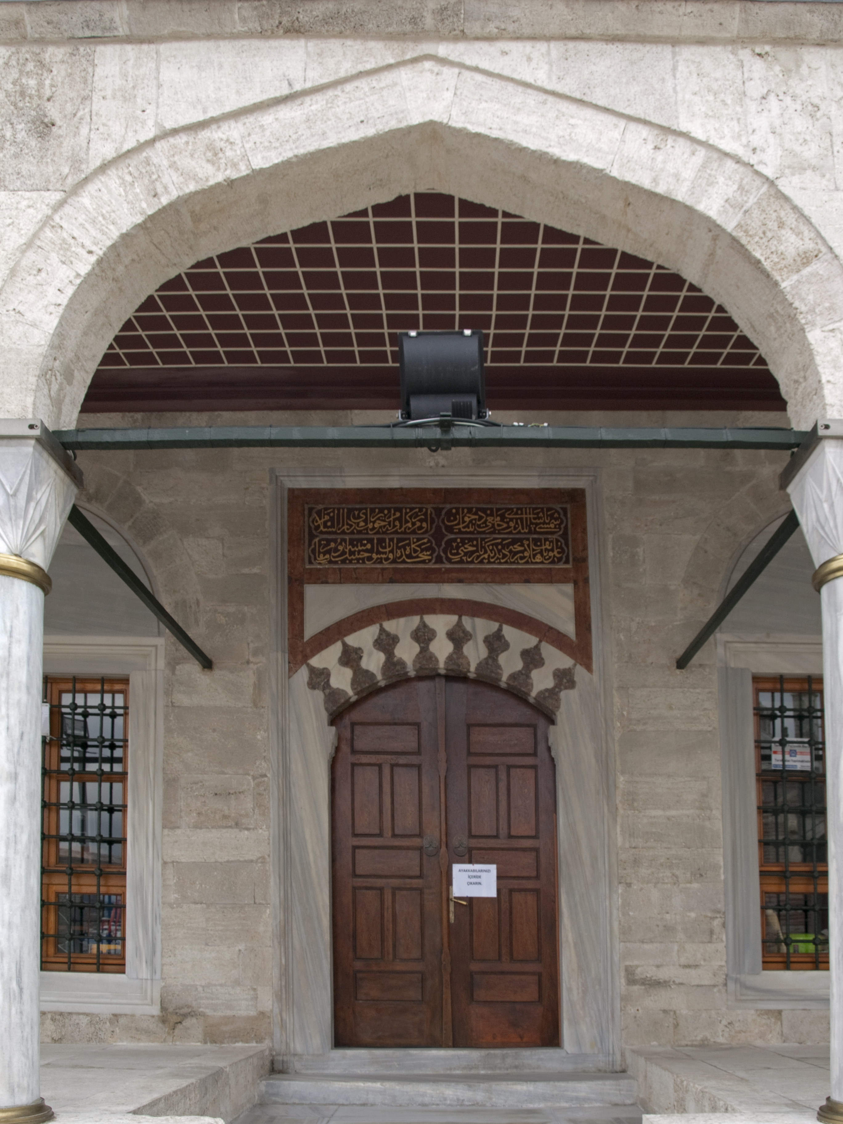 Entrance to Şemsi Pasha Mosque, Uskudar